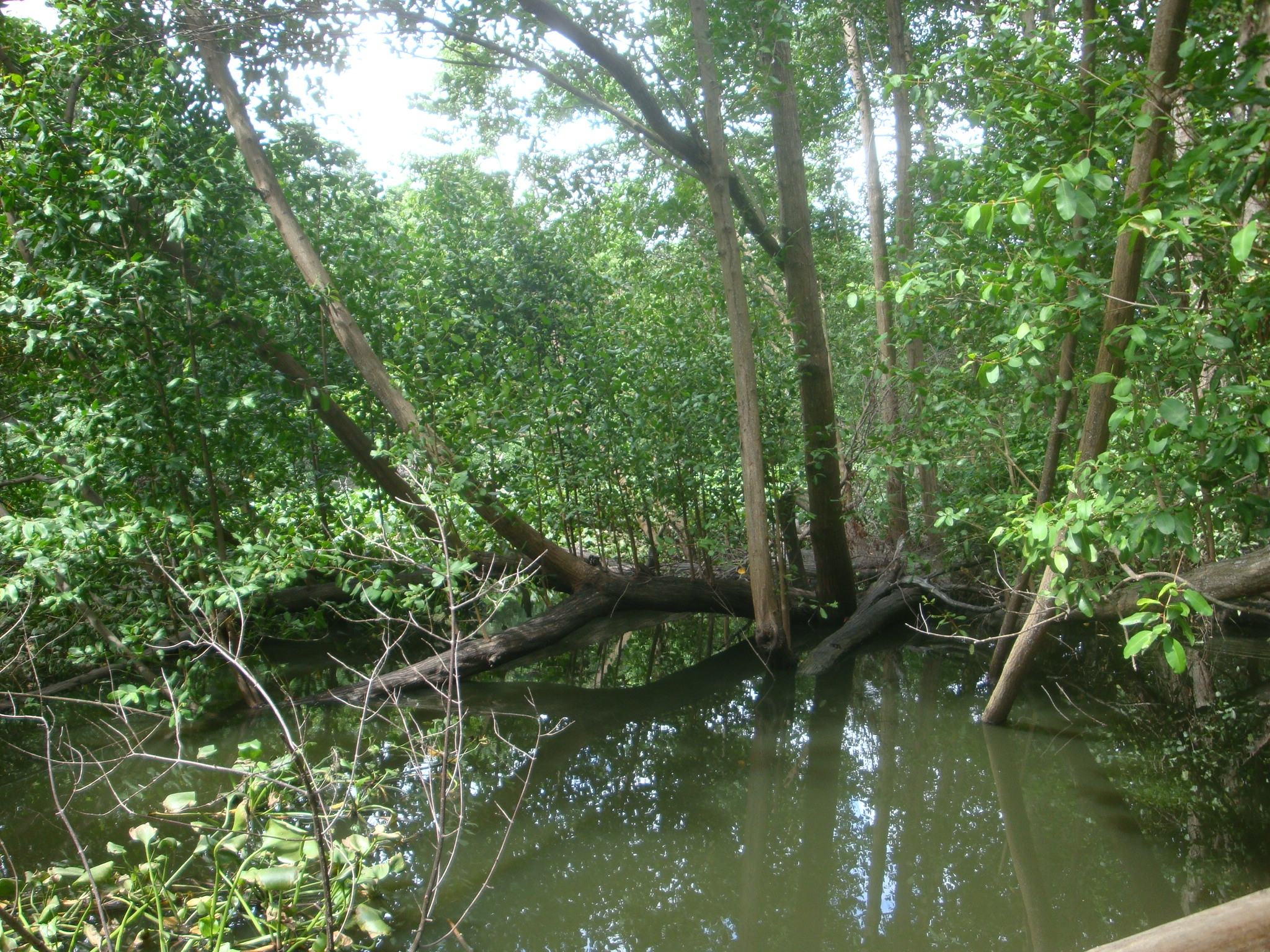 beginning of trail, center of Fortaleza, ultra-easy access